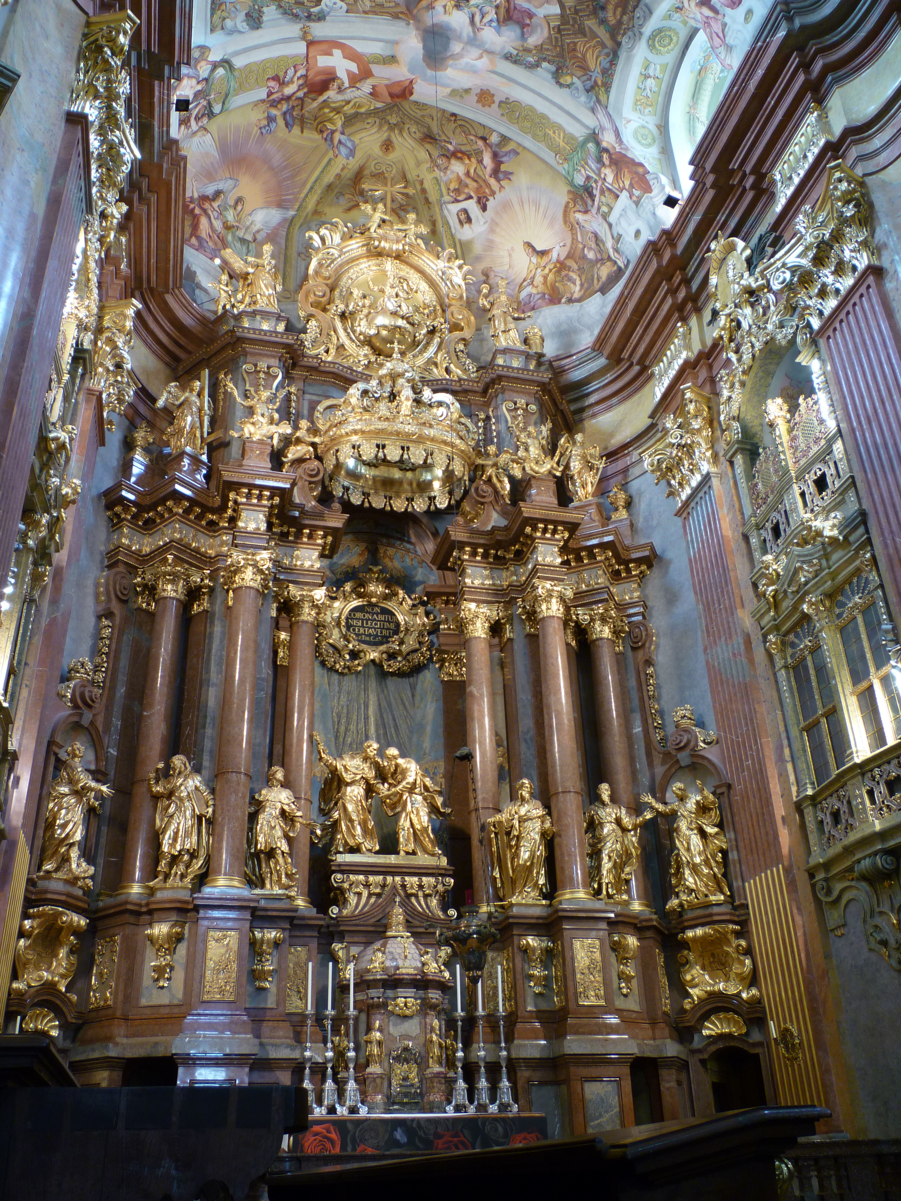 High altar of Melk Abbey church